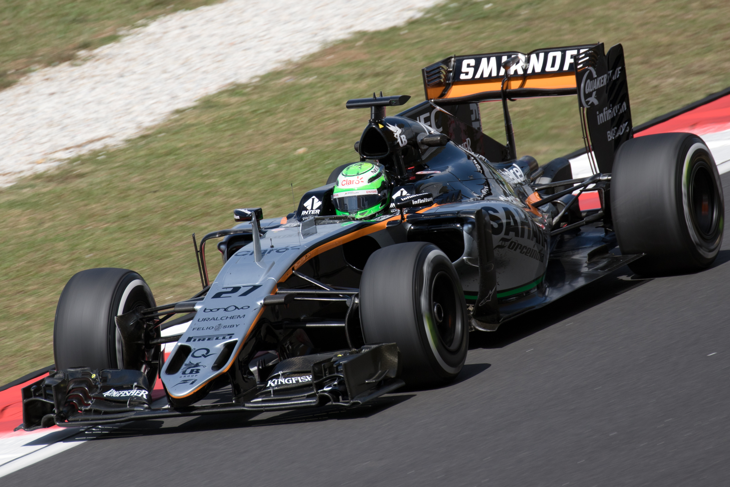 Formula One 2016 Rd.16 Malaysian GP: Nico Hülkenberg (Force India)